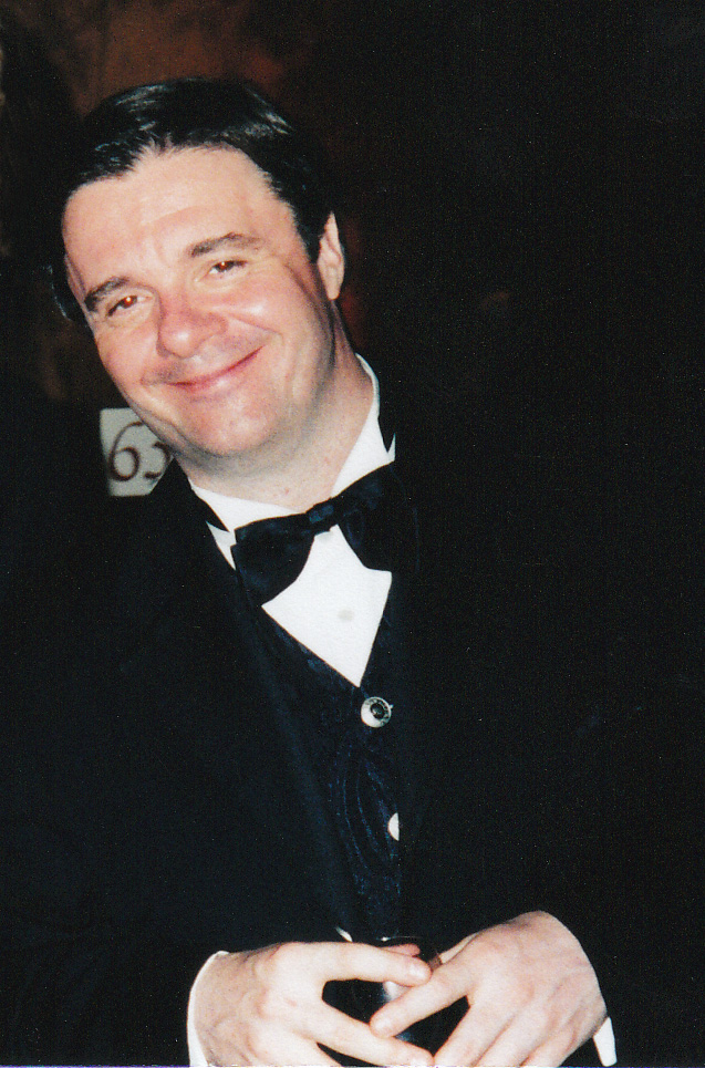 1998 Emmy Awards NOTE: Permission granted to copy, publish, broadcast or post any of my photos, but please credit "photo by Alan Light" if you can. Thanks.